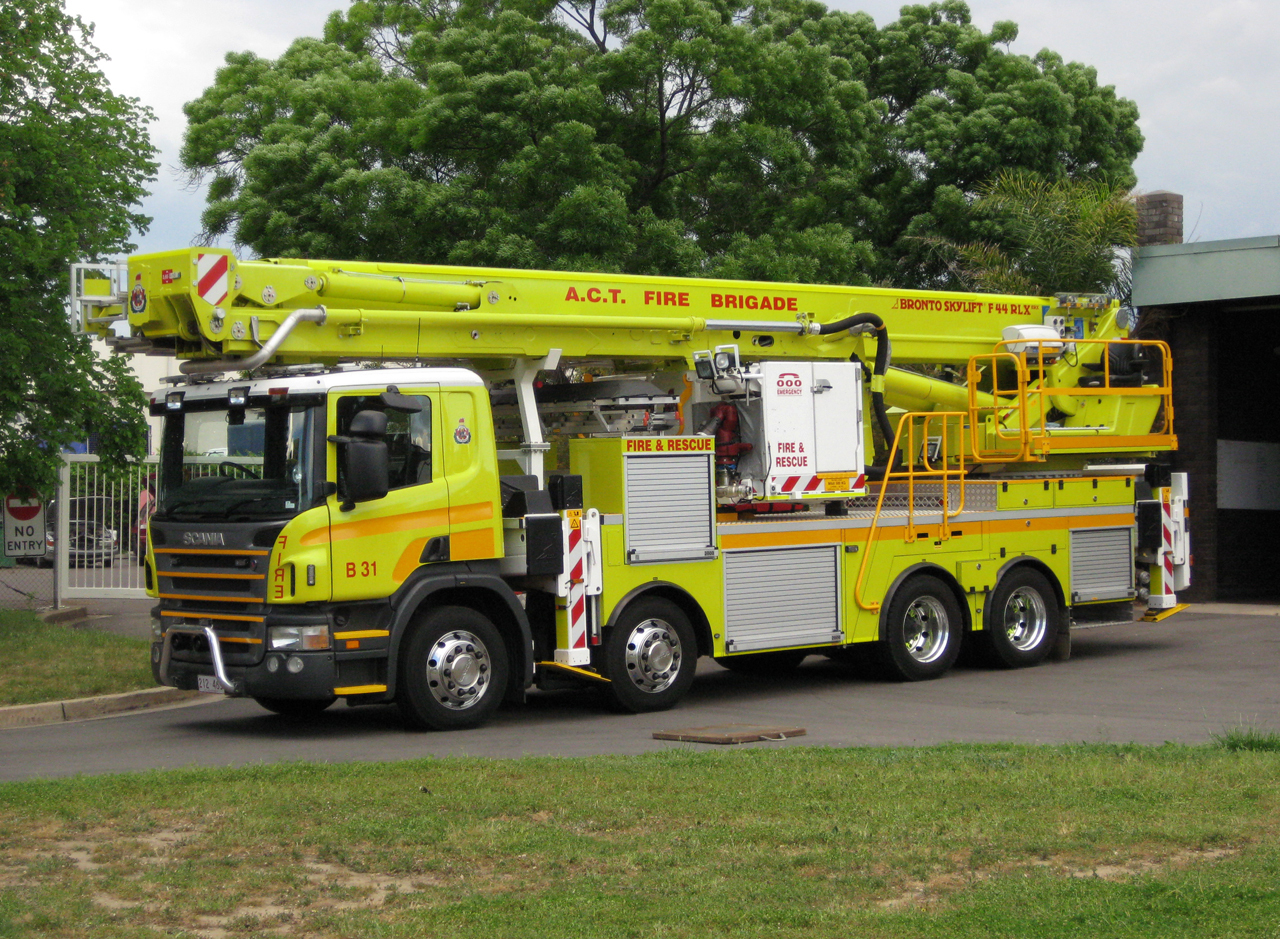 ACT Fire Brigade 44 metre Bronto Skylift Telescopic Ladder Platform, Scania P380.